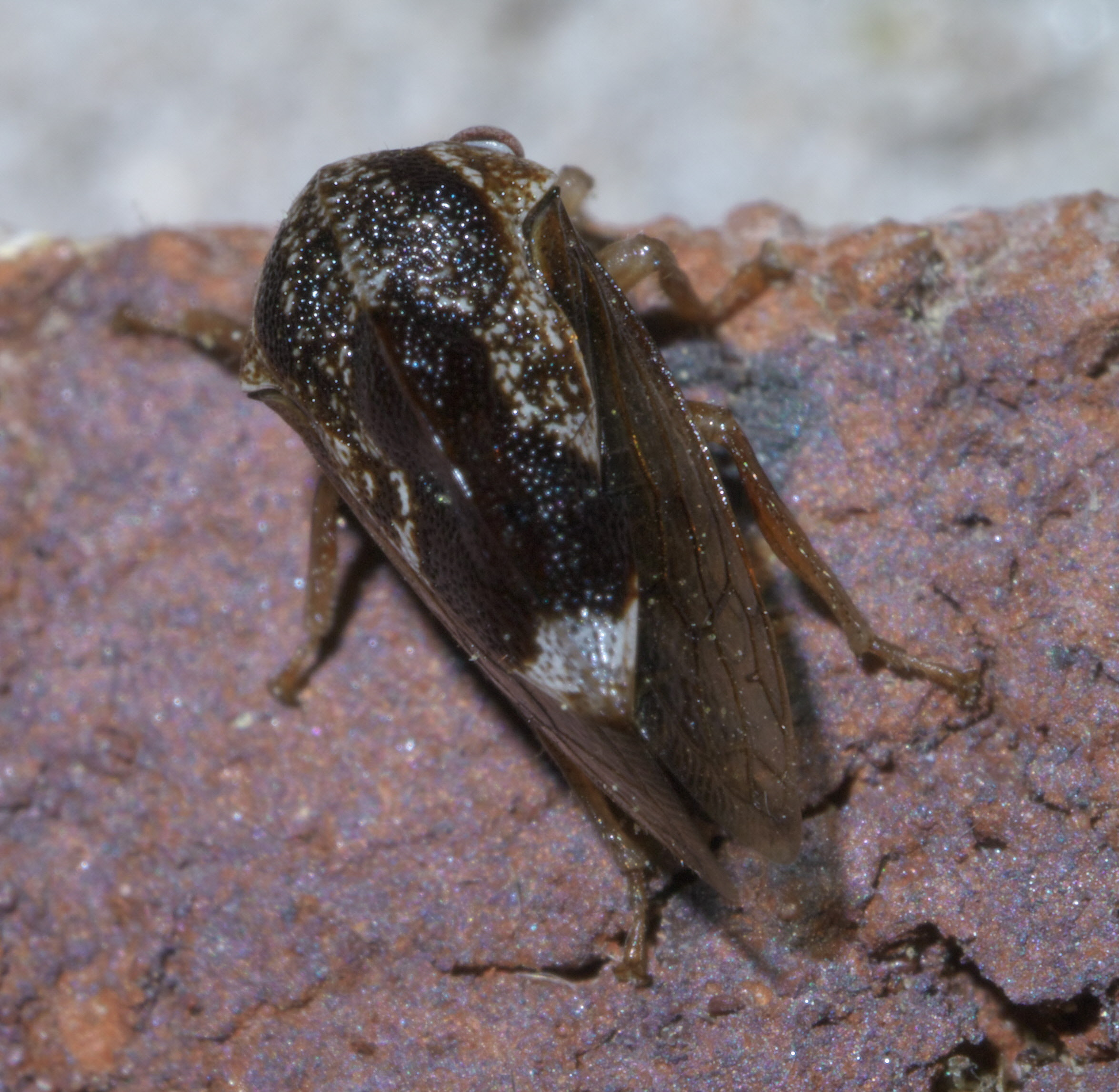 Xantholobus, Family: Treehoppers, Size: 6.6 mm, ID Confidence: 98